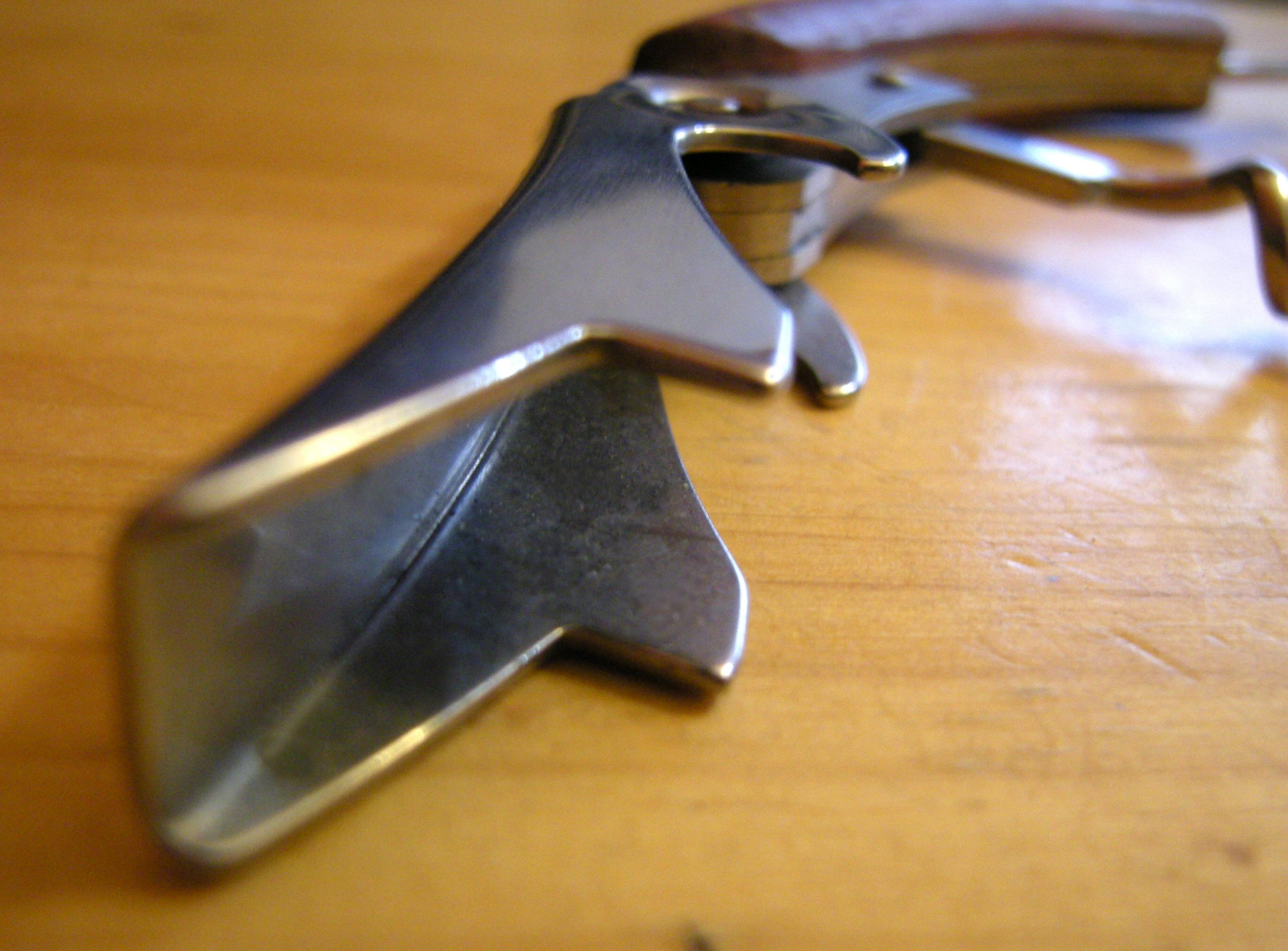 Corkscrew